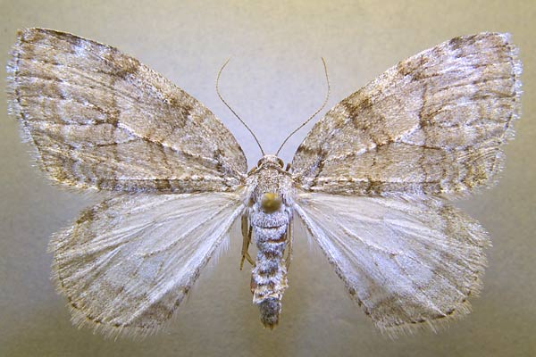 Epirrita autumnata 600x400 pxl, 50 kB 23.09.1989, south-western Finland.